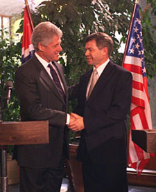 Bill Clinton (left) and Kjell Magne Bondevik (right) after a joint news conference at Government House, Oslo.